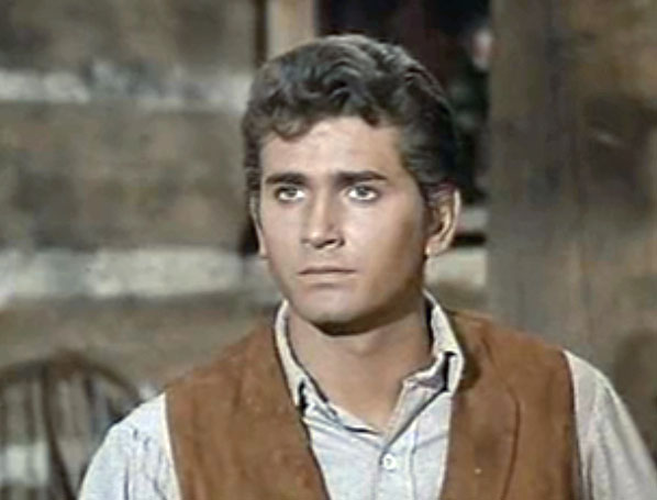 Cropped screenshot of Michael Landon from the television series Bonanza. Episode: "Showdown" (1960).